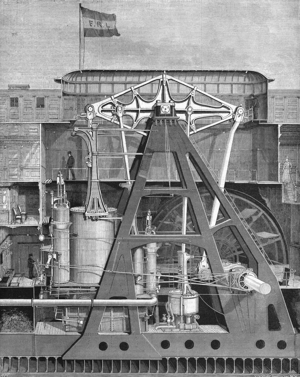 Compound beam engine of the Fall River Line steamer Puritan (1891). The steel-framed engine, built by W. & A. Fletcher Co. of Hoboken, New Jersey, was the largest vertical beam (ie walking beam) engine ever constructed. Fletcher compound beam engines were unusual in that the connecting rods of the two cylinders were attached to the skeleton beam at different points, giving them a different stroke. This particular engine, for example, had a high pressure cylinder with bore of 75 inches and 9 foot stroke while the low pressure cylinder had a bore of 110 inches by 14 foot stroke. The different stroke lengths of the individual pistons in Fletcher engines has been a source of much confusion to historians, some of whom have assumed that the ships had two separate engines while others have concluded the second stroke length must be the dimensions of a third piston in a triple expansion engine. The reason Fletcher compound beam engines had this unusual arrangement is not known, but at least some of them were capable of disabling the high pressure cylinder and working as simple expansion engines.